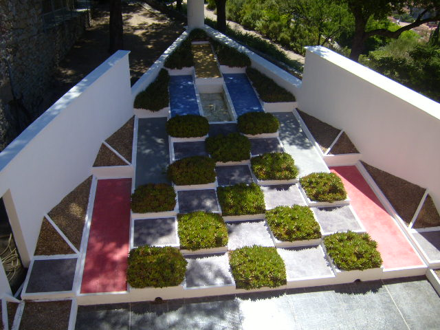 View of the Cubist Garden of the Villa de Noailles in Hyeres, France